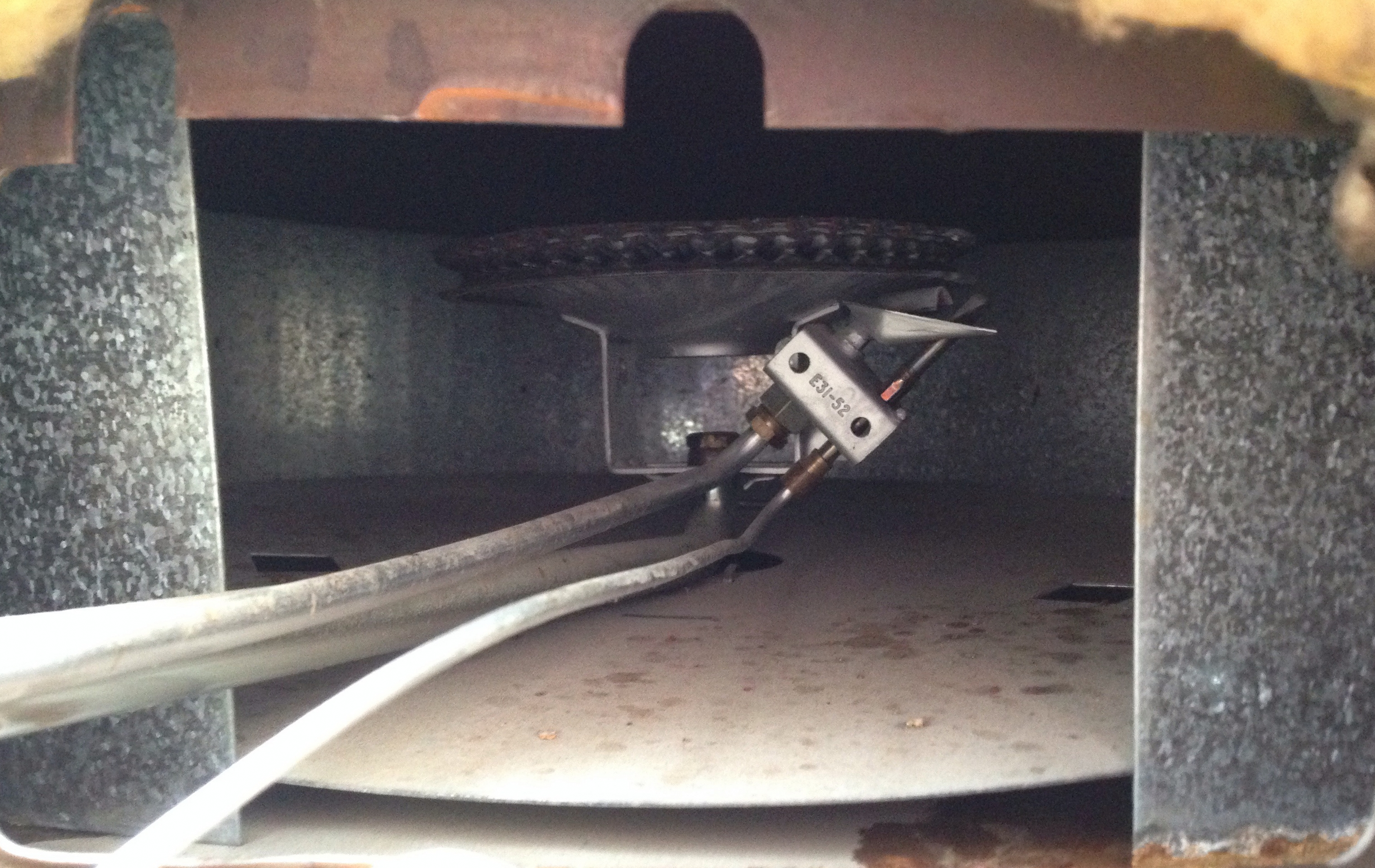 Burner assembly of a water heater. The assembly include manifold tube, burner and pilot bracket that connects pilot tube and the thermocouple. See notes in the description page of the Wikimedia Commons for the locations of those components.